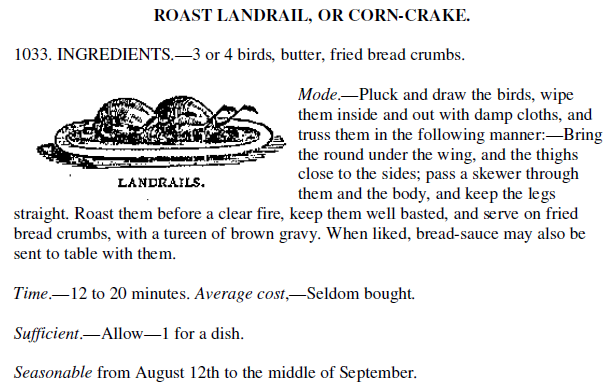 Corncrake recipe from Mrs Beeton's Book of Household Management